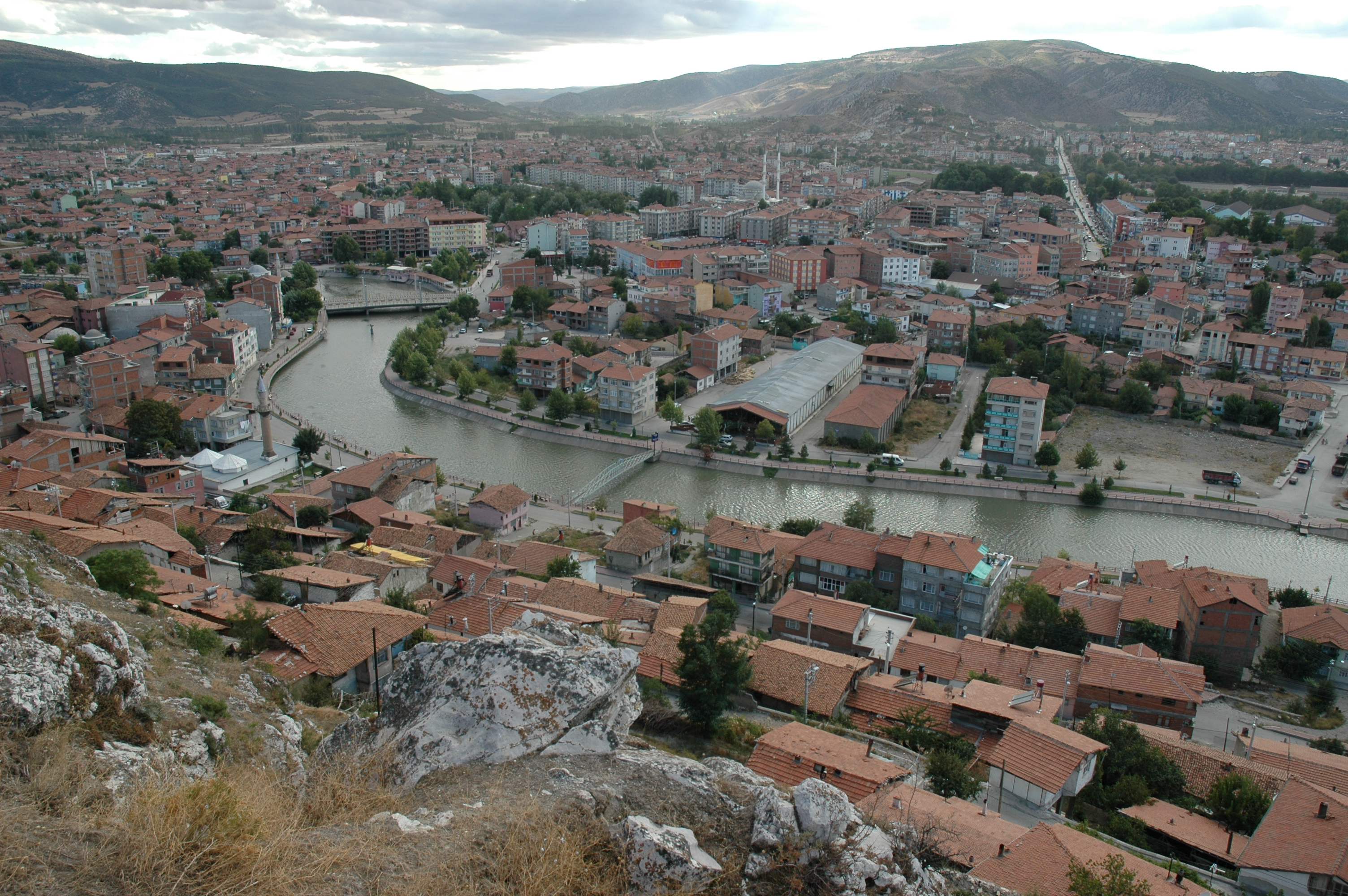 One of several pictures taken from the hill that once held a fortress, situated at the east side of the river.